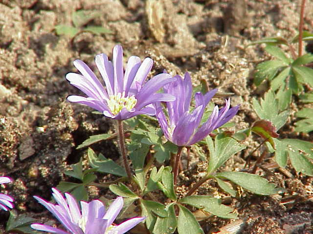 Species: Anemone blanda Family: Ranunculaceae Image No. 2